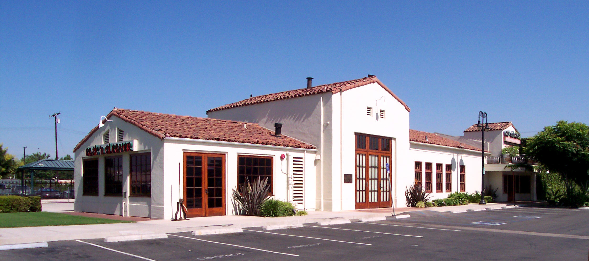 The former AT&SF railway station in Orange, California in July 2004. Photograph by Robert A. Estremo, copyright 2004.